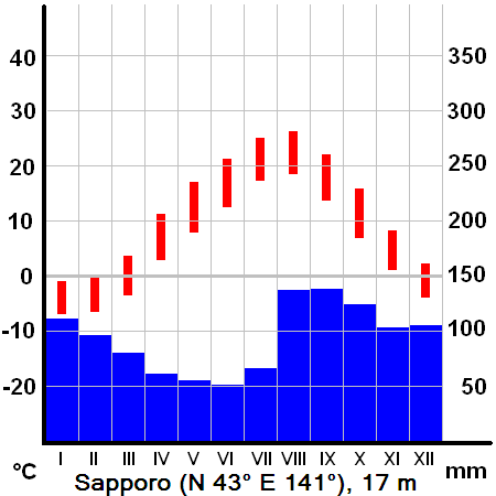 Climate diagram of Sapporo, Japan. Map based Image:ClimateTemplate.PNG Source:JMA data